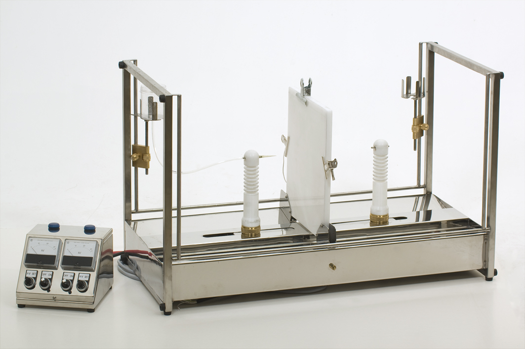 An Electrospinz Ltd Doris type laboratory electrospinning machine